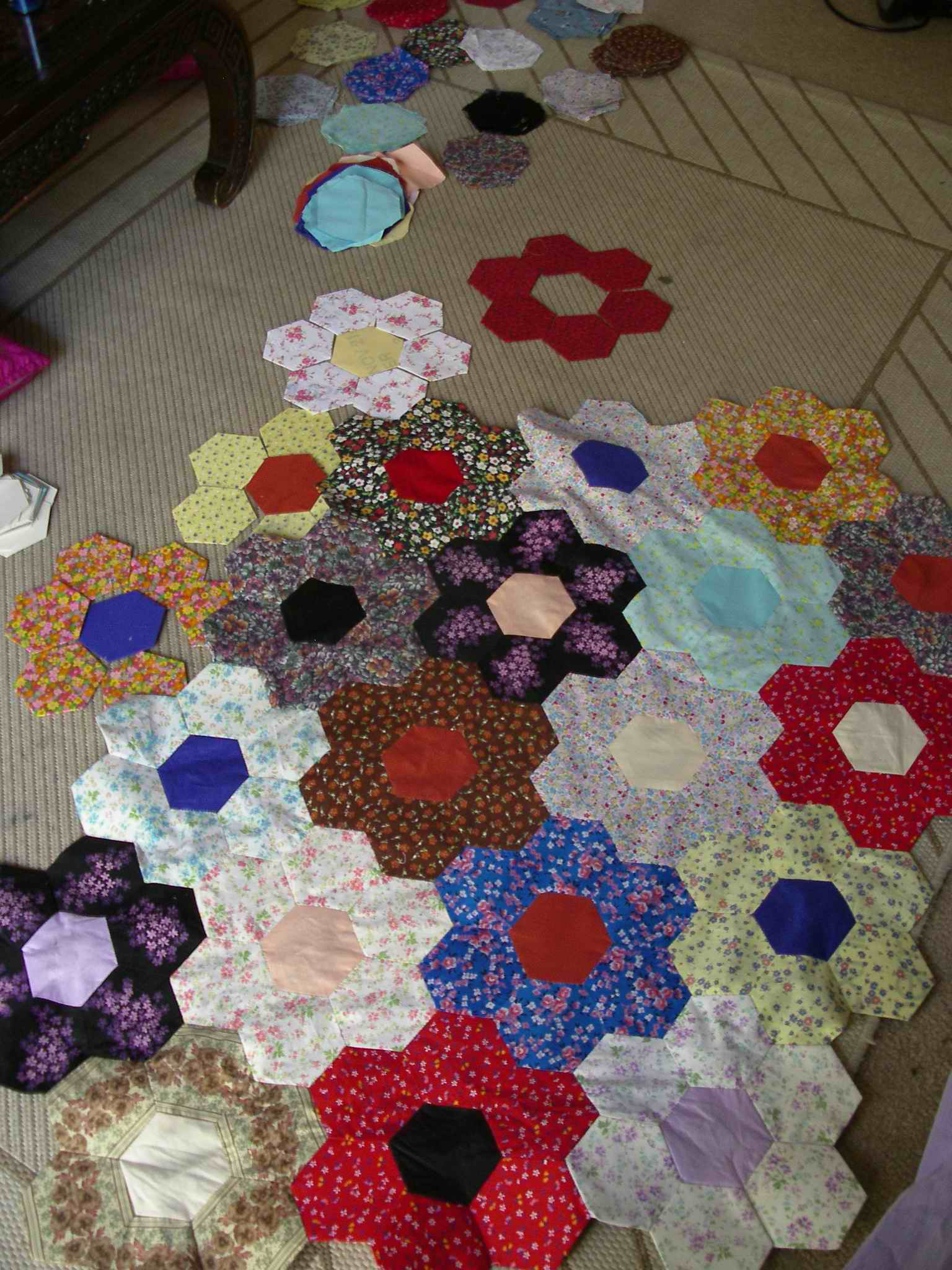 Hexagon paper pieced quilt under production.